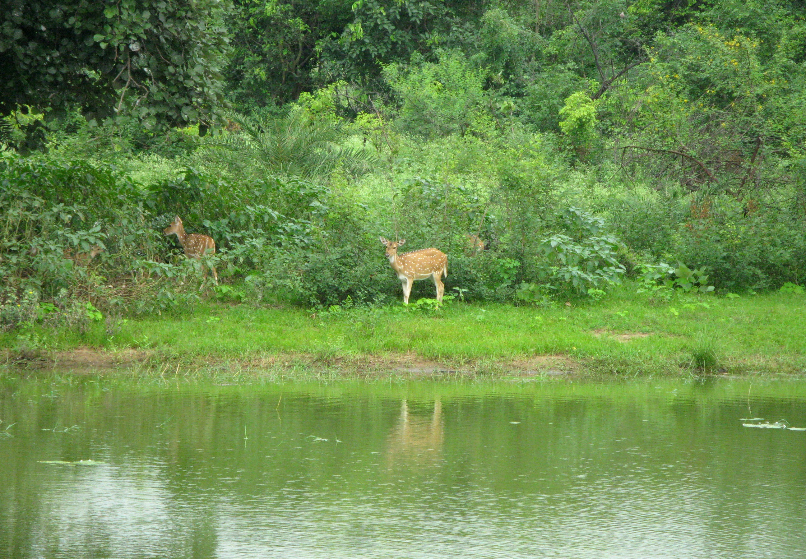 cheetal (spotted deer) roam freely along with other herbivores at Van Vihar National Park